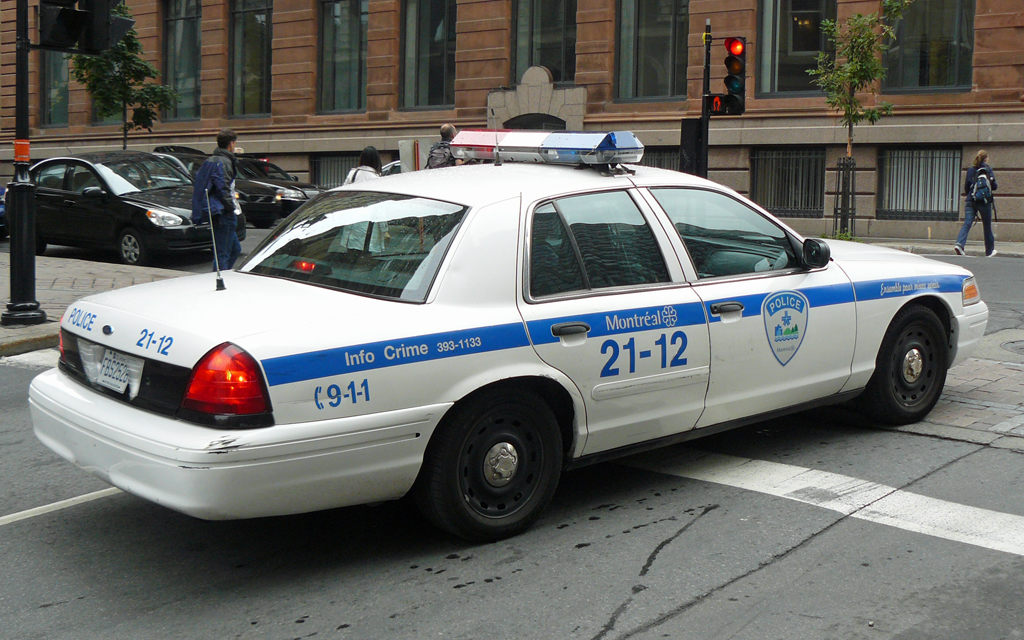 Police Car in Montreal